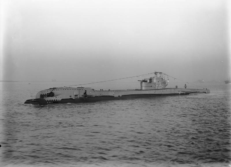 British T class submarine HMSM TURPIN at a buoy.